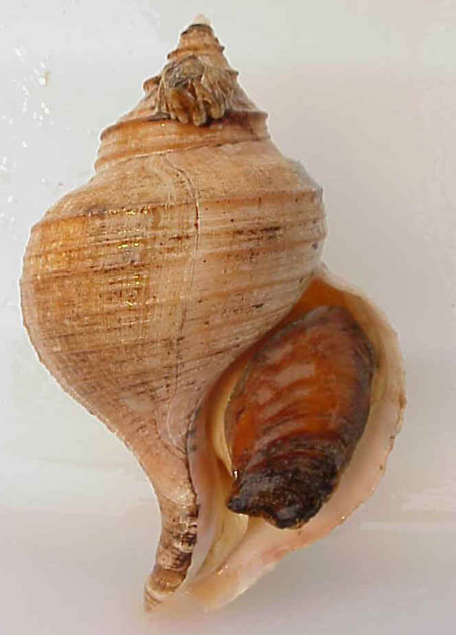 apertural view of the shell of Neptunea pribiloffensis